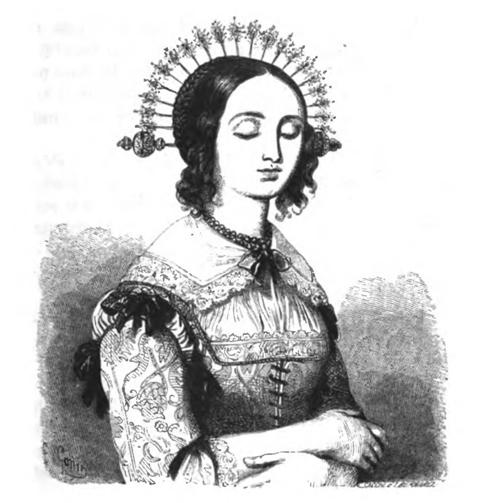 The most famous Italian historical romance,and the masterpiece of Alessandro Manzoni.